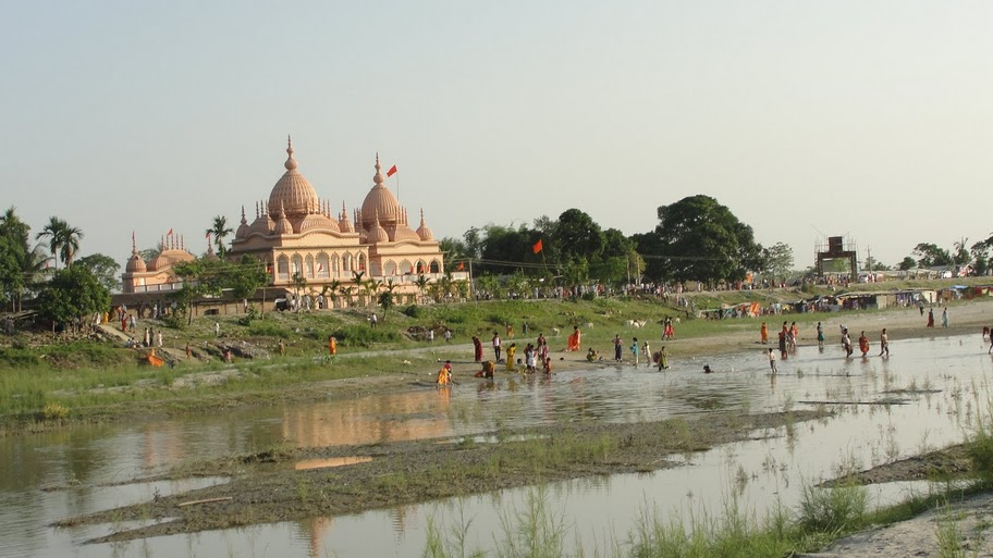 Swami Nigamananda's Shanti Ashram (Now known as Assam Bongiya Saraswata Matha) on bank of river Brahmaputra, Kokilamukh, Assam.